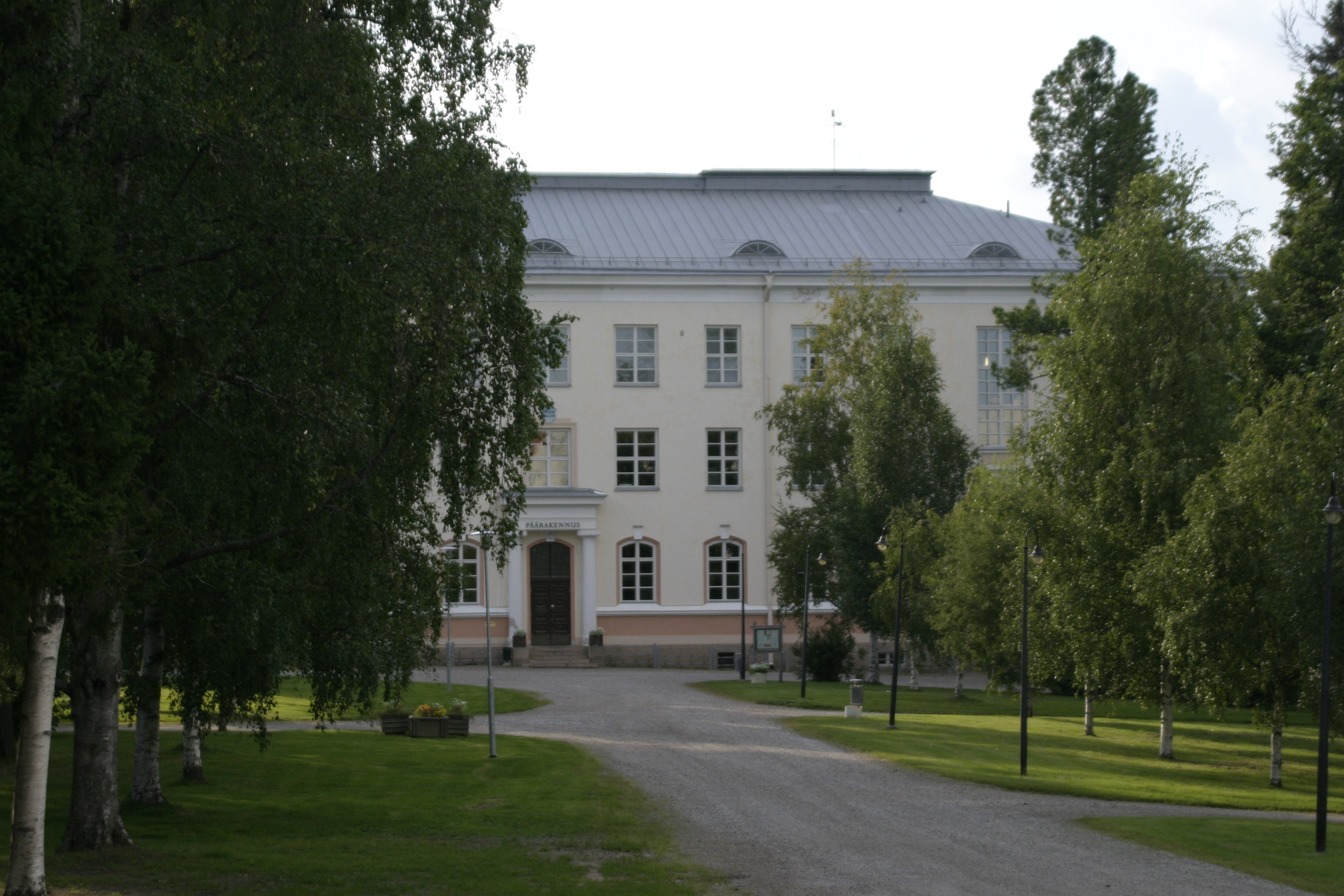 Part of Kajaani's University Consortium in Kajaani, Finland